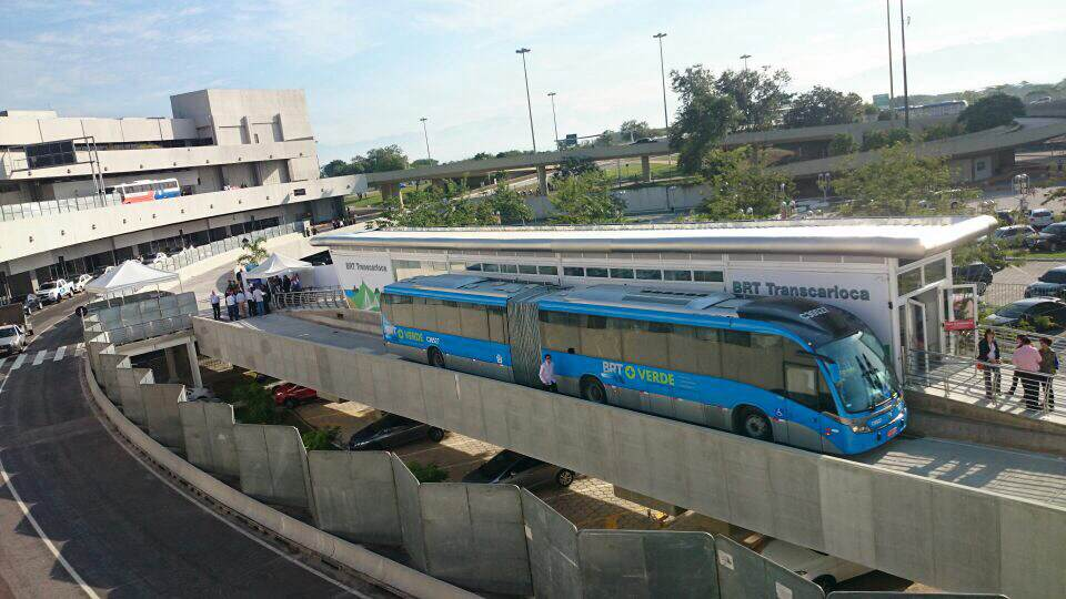 TransCarioca BRT station at Rio de Janeiro/Galeão - Antônio Carlos Jobim International Airport, Rio de Janeiro during the official opening ceremony.